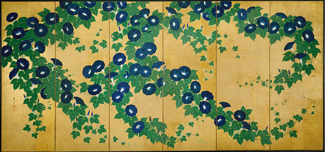 Asagao-zu Byōbu by Kitsu Suzuki (1796−1858)